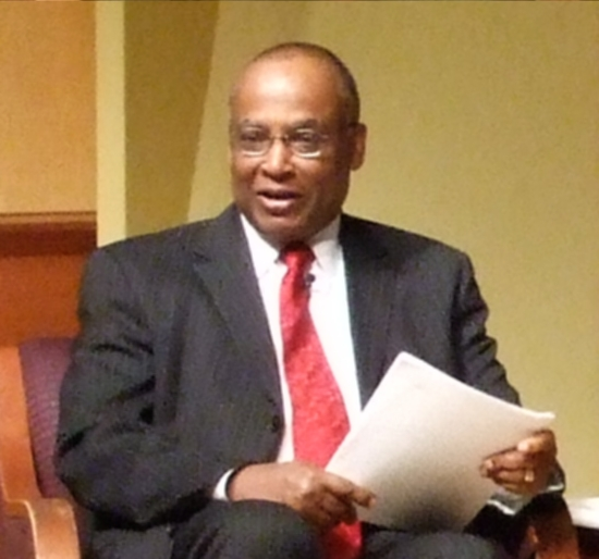 Former Mayor of Seattle, Norm Rice, picture taken during a panel discussion at University of Washington.